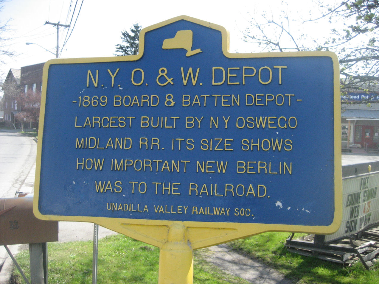 Historic marker of N.Y. & O. Depot, New Berlin, NY. Built 1869 of board and batten, the largest built by the NY Oswego Midland Railroad.